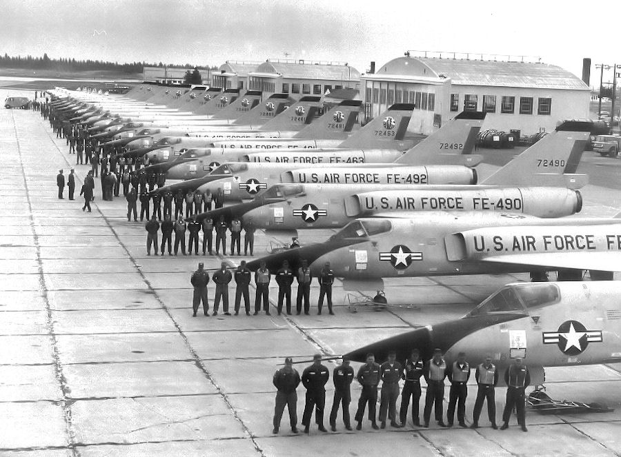 Aircraft and support crews of the 498th FIS, 78th Fighter Group, Geiger Field,Spokane, Washington, 1963